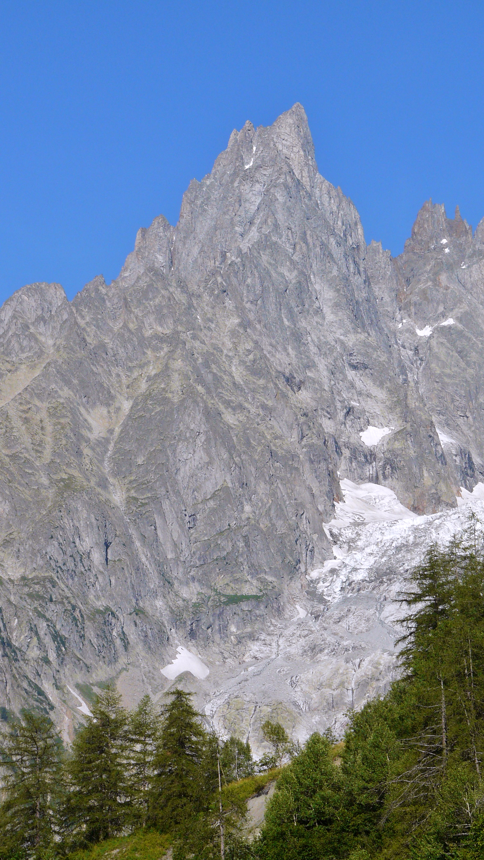 The 3,773 metres high summit of Aiguille Noire de Peuterey as seen from La Palud in 2009 July.